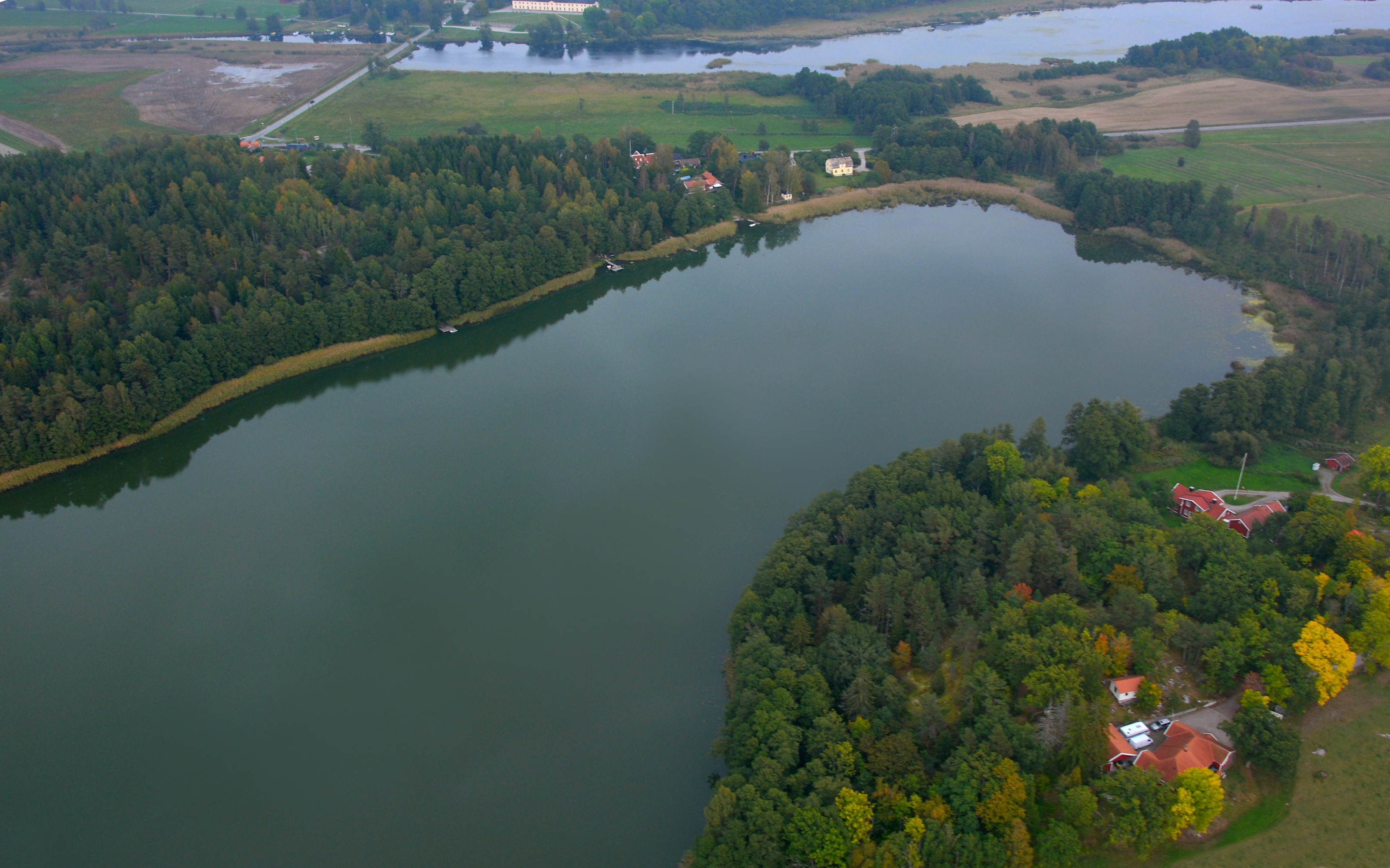 The lake Igelviken in Ekerö Municipality, Sweden.